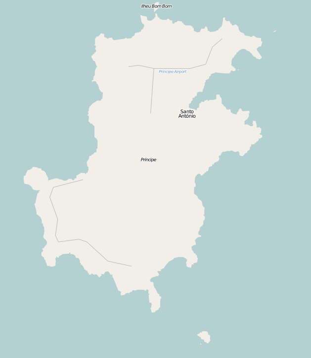 Map of Principe island Geographic limits of the map: N: 1.7017° S: 1.5013° W: 7.315° E: 7.4891°